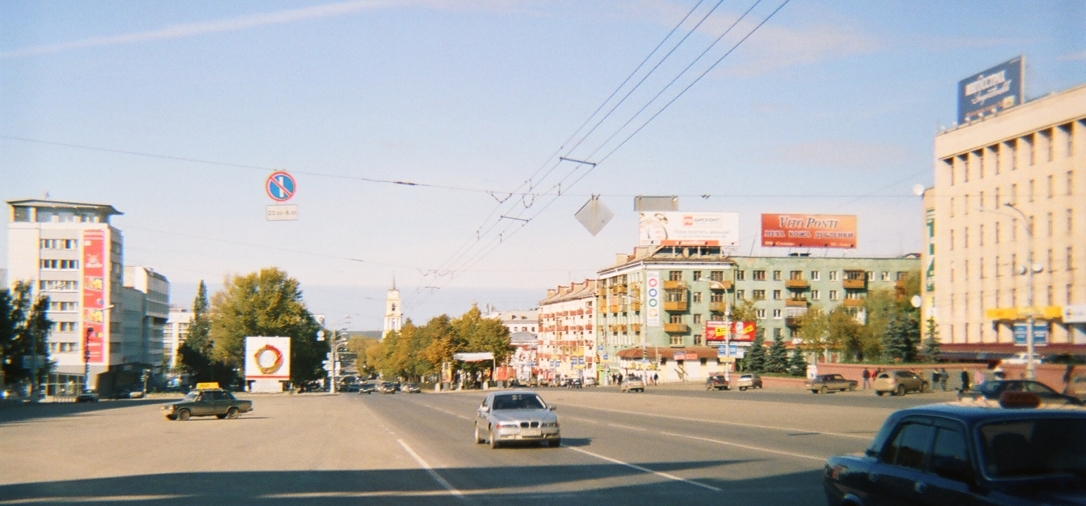 Komsomolsky Avenue (Perm), September 2006